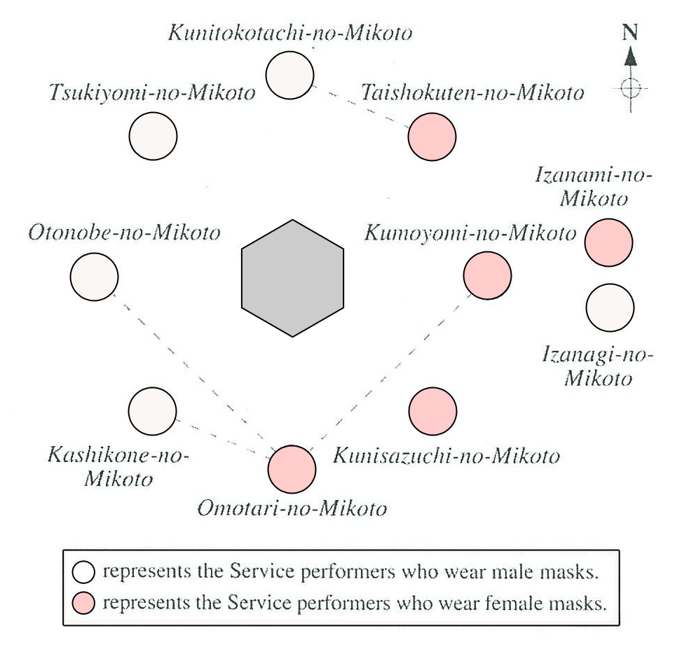 Illustration of Tenrikyo's most sacred ritual, the Kagura Service.